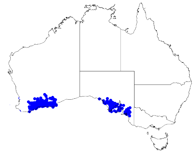 Boronia inornata occurrence data downloaded from Australasian Virtual Herbarium 10 April 2019 using This download included all the environmental overlay fields and ALA's data checking fields including "cultivated / escapee", "outside expert range for species", "latitude is negated", "coordinates are transposed", "taxon misidentified", "habitat incorrect for species", and "suspected outlier" (over 730 fields). Deleting occurrences for which any of the above were true, 46 specimens with coordinates were deleted. However this did not remove all obvious spatial outliers some of which were later removed by hand..,,, On examination of the interactive map for Boronia inornata: Three further specimens,CBG8413526.1, AD 99939199, and CANB 440821.1 were later excluded as suspected outliers using the interactive map. And two further point were excluded: NSW 891324 (habitat incorrect for species) and MEL 2099058A (invalid collection date)